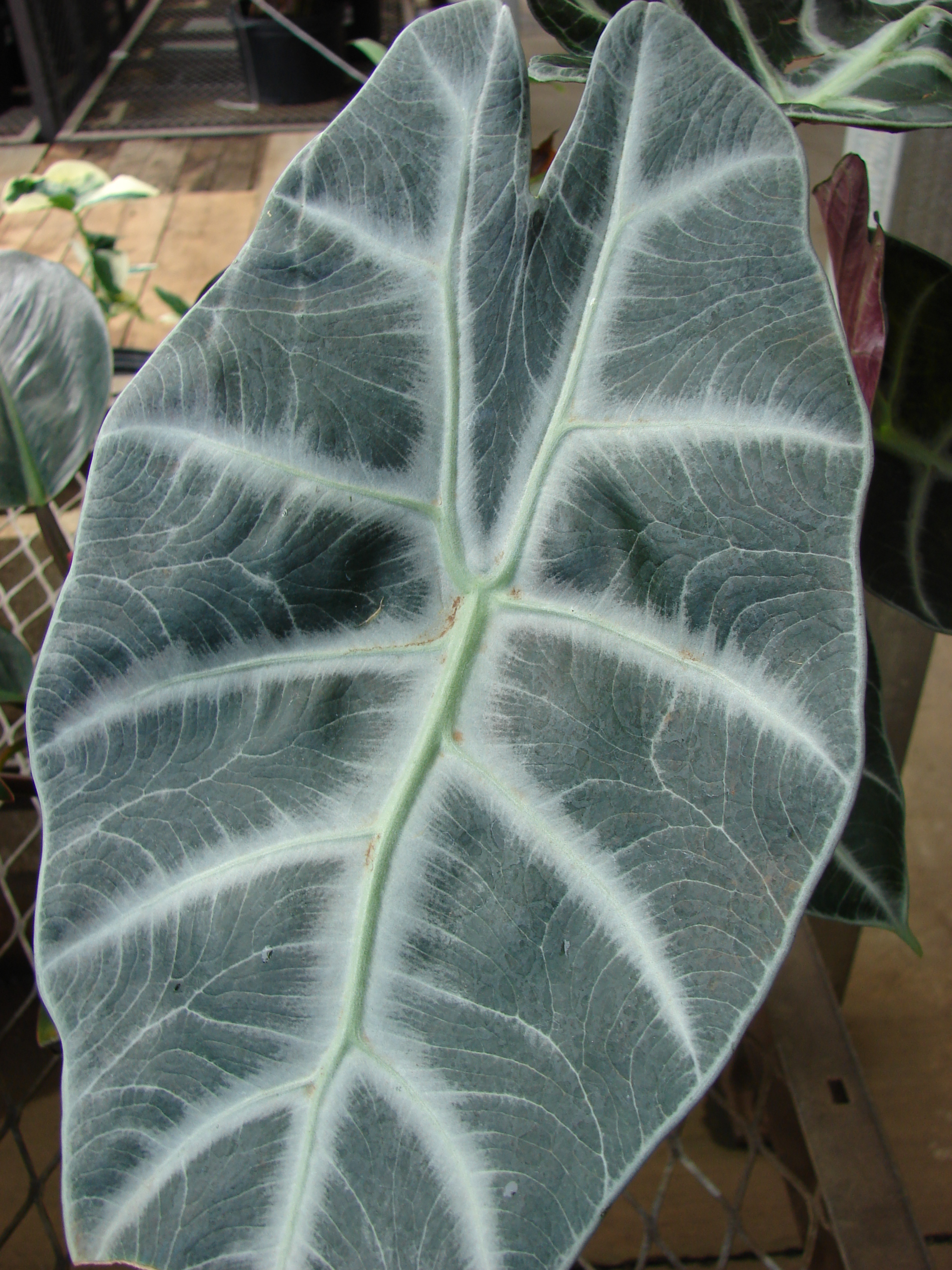 Philodendron sp. (leaf). Location: Maui, Lowes Garden Center Kahului